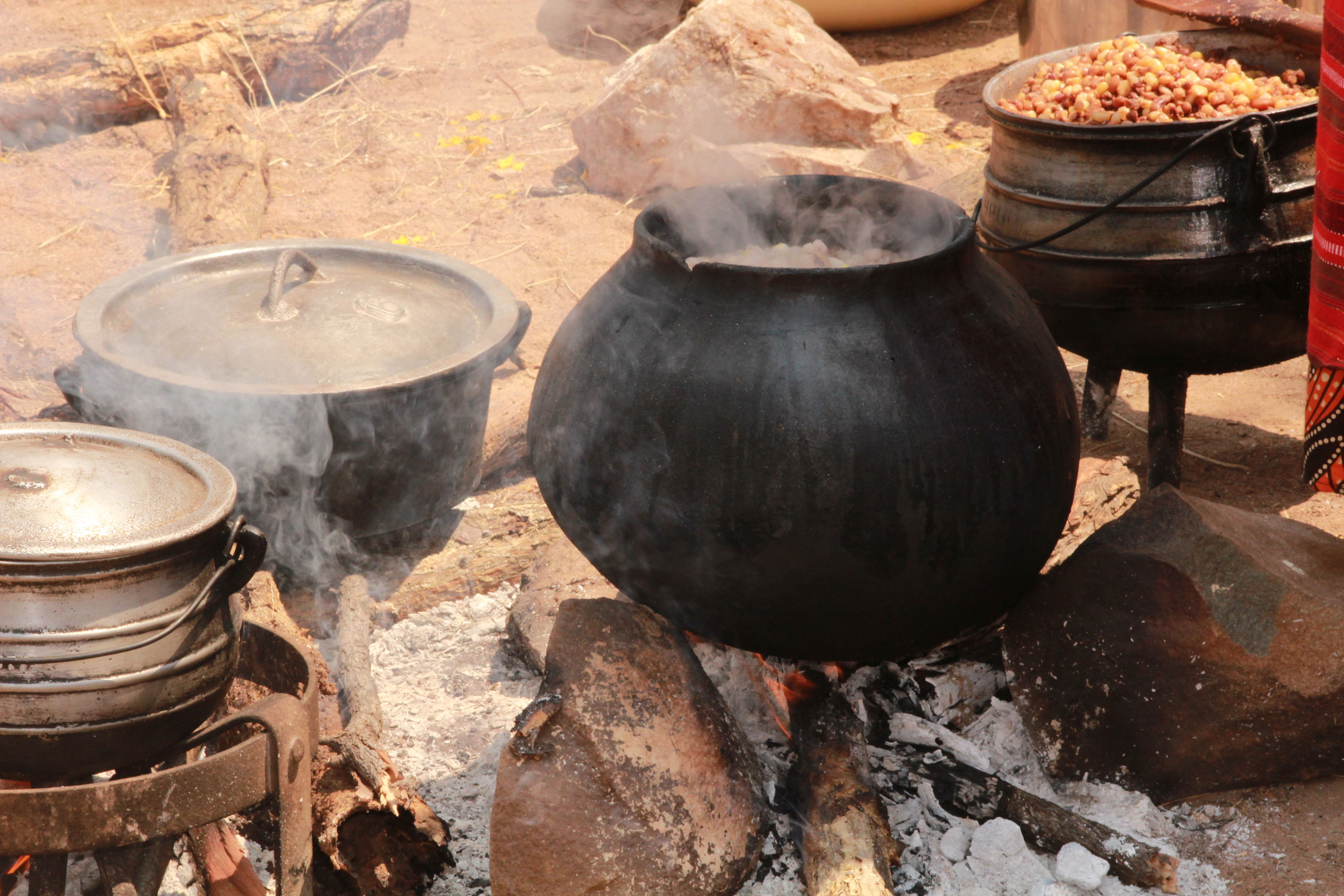 Chimone meal getting ready in the pots Kalanga traditional meals This is an image of "African people at work" from Botswana